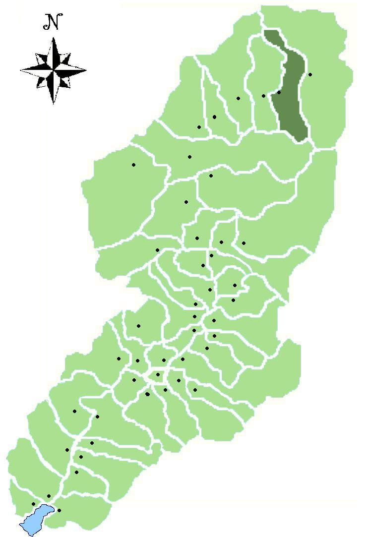 Map of the Comune di Temù, Valle Camonica